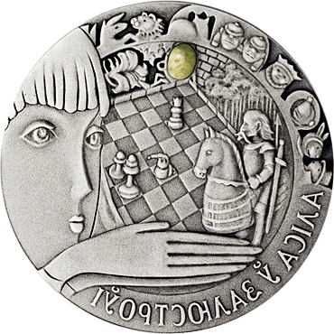 Belarus and the global community. Commemorative Coin "Alіsa ¢ zalyustroўі (" Alice in Wonderland ")